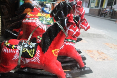 horse taka in display in Paete, Laguna. Paete folk art.